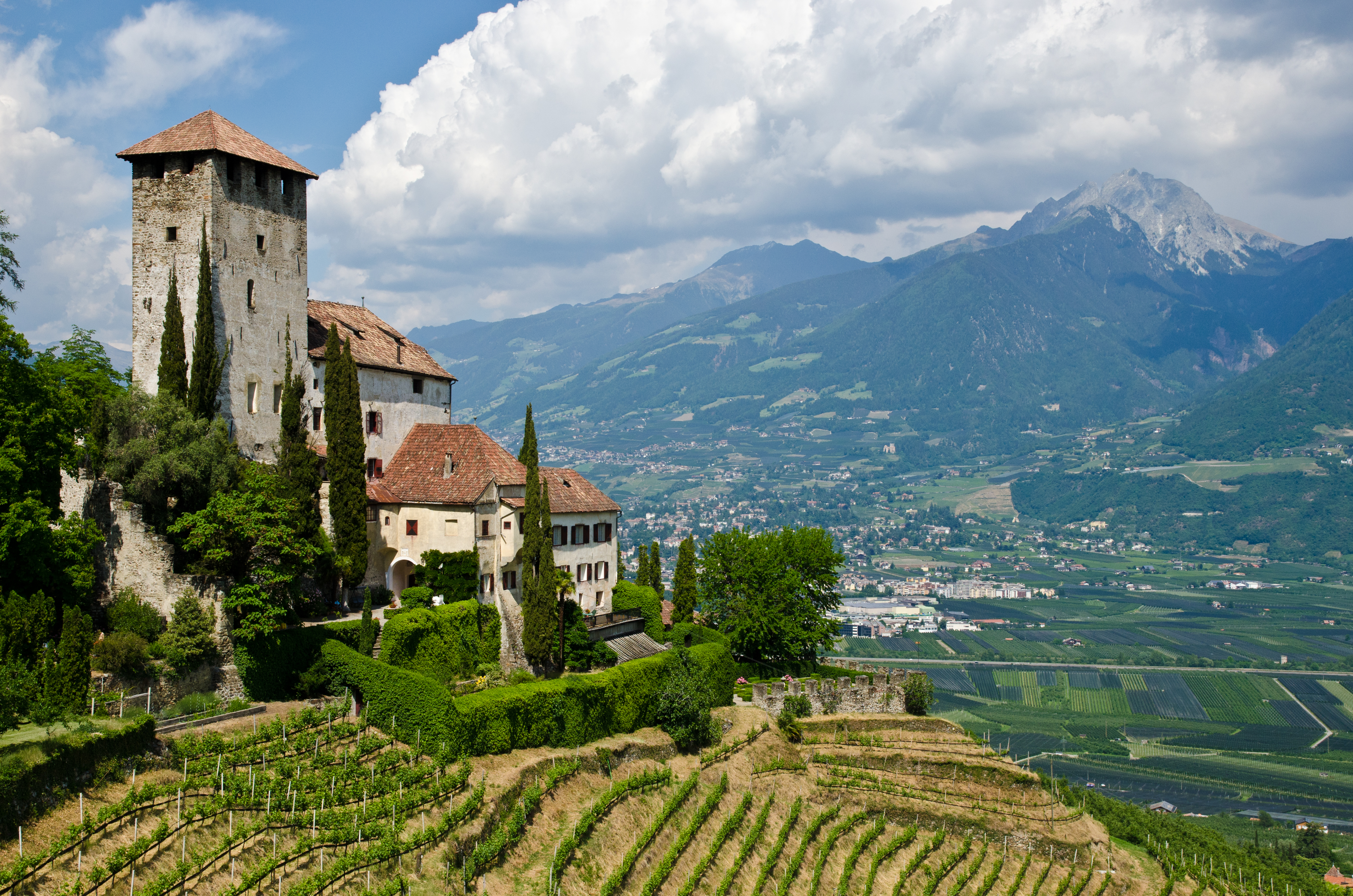 Castle Lebenberg, Merano-Tscherms, South Tyrol, Italy